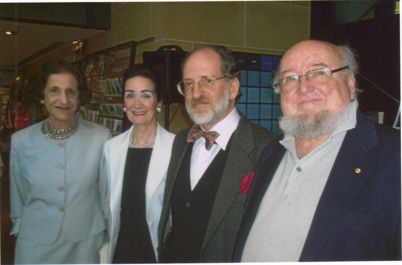 Photo of Dame Marie Bashir, Louise Dando-Collins, Stephen Dando-Collins, and Tom Keneally